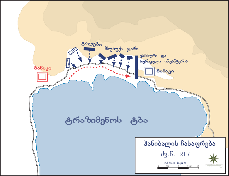 Battle of lake trasimene